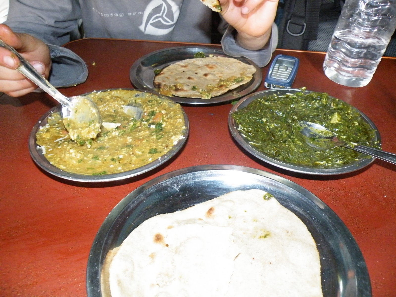 Shahi paneer - Shahi paneer is a preparation of paneer, cream, tomatoes and spices.